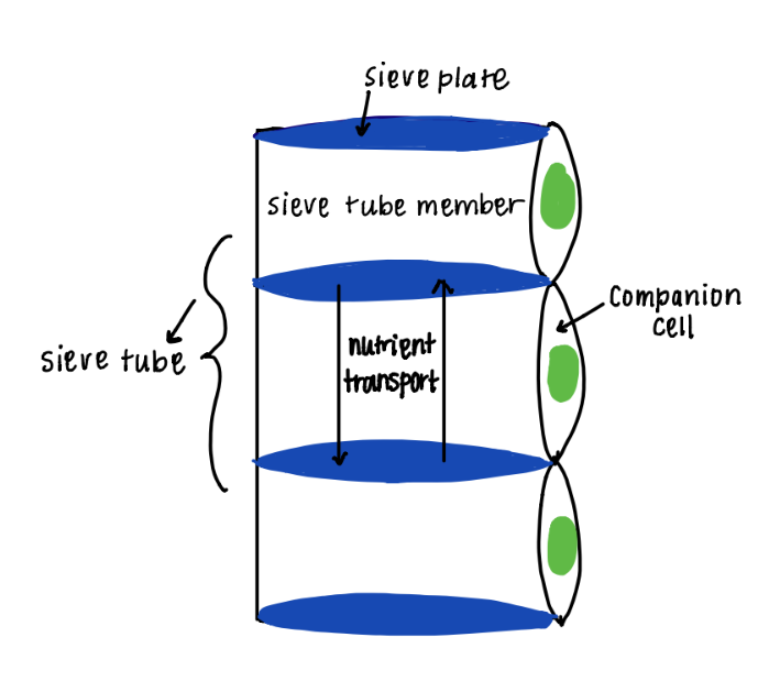 Sieve tube member